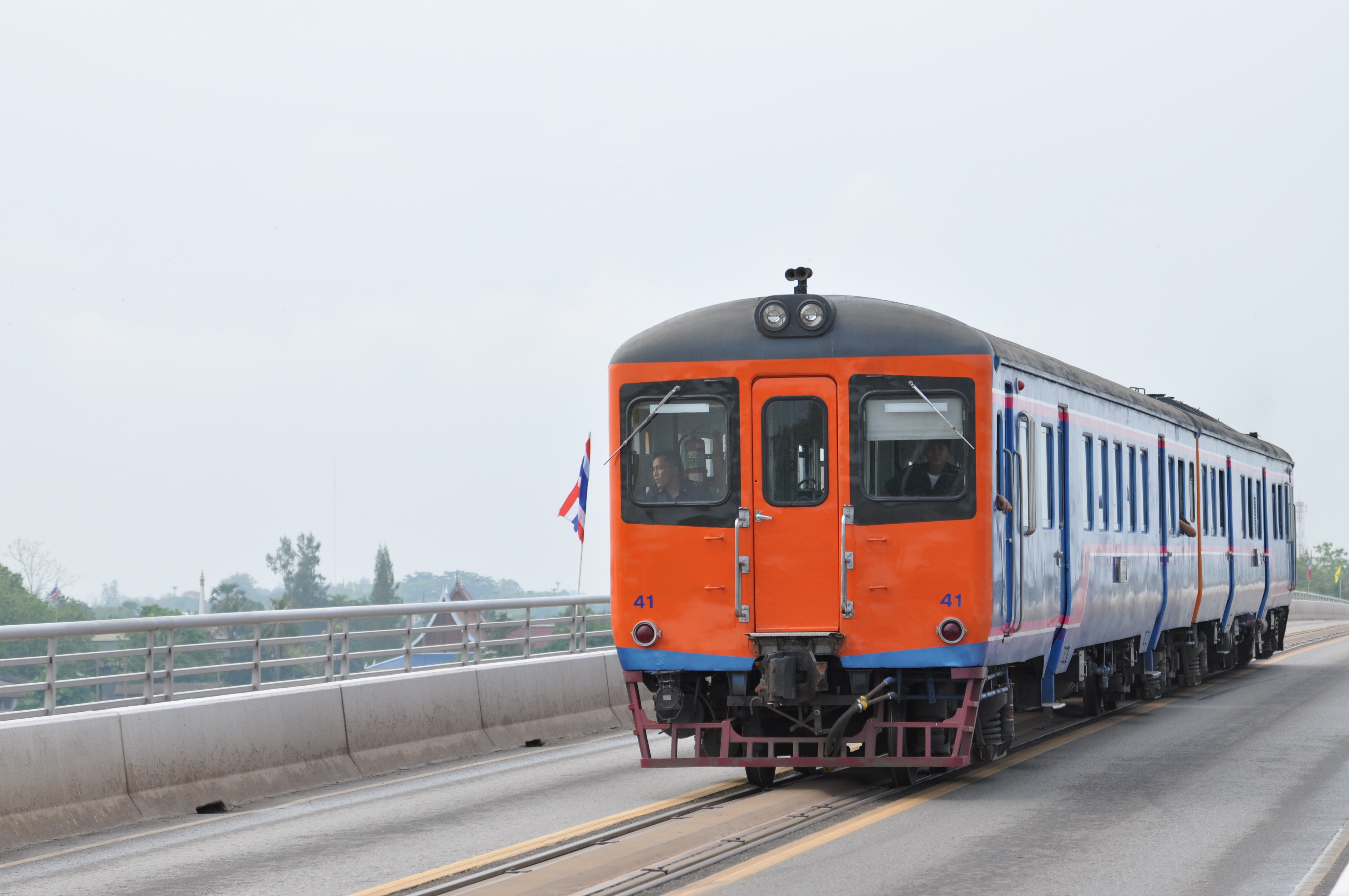 We soon heard some rumbling on the bridge. And look ye here, what else should come by rumbling on the track than a TRAIN!! Trains have been so kind to me for the past couple of trips. Just six months earlier, I'd been delighted to see a train at Butterworth station in Penang, Malaysia, when my driver guide was assuring me that the train out of the station was only at 14:30. It was only past 11:00 at that point. And now this. Surprise indeed to see this train at 09:00 when the departure was not until 11:30, which too I discovered only much later! This is serendipity at its extreme best! (Vientaine, Laos/ Lao PDR, April 2014)